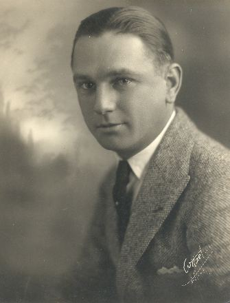 Early jazz musician Gussie Mueller, c. 1922